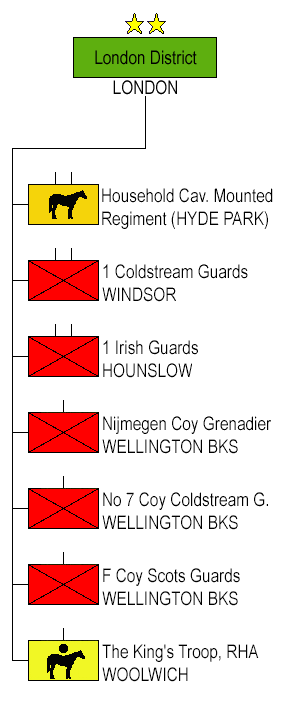 United Kingdom Army London District Structure